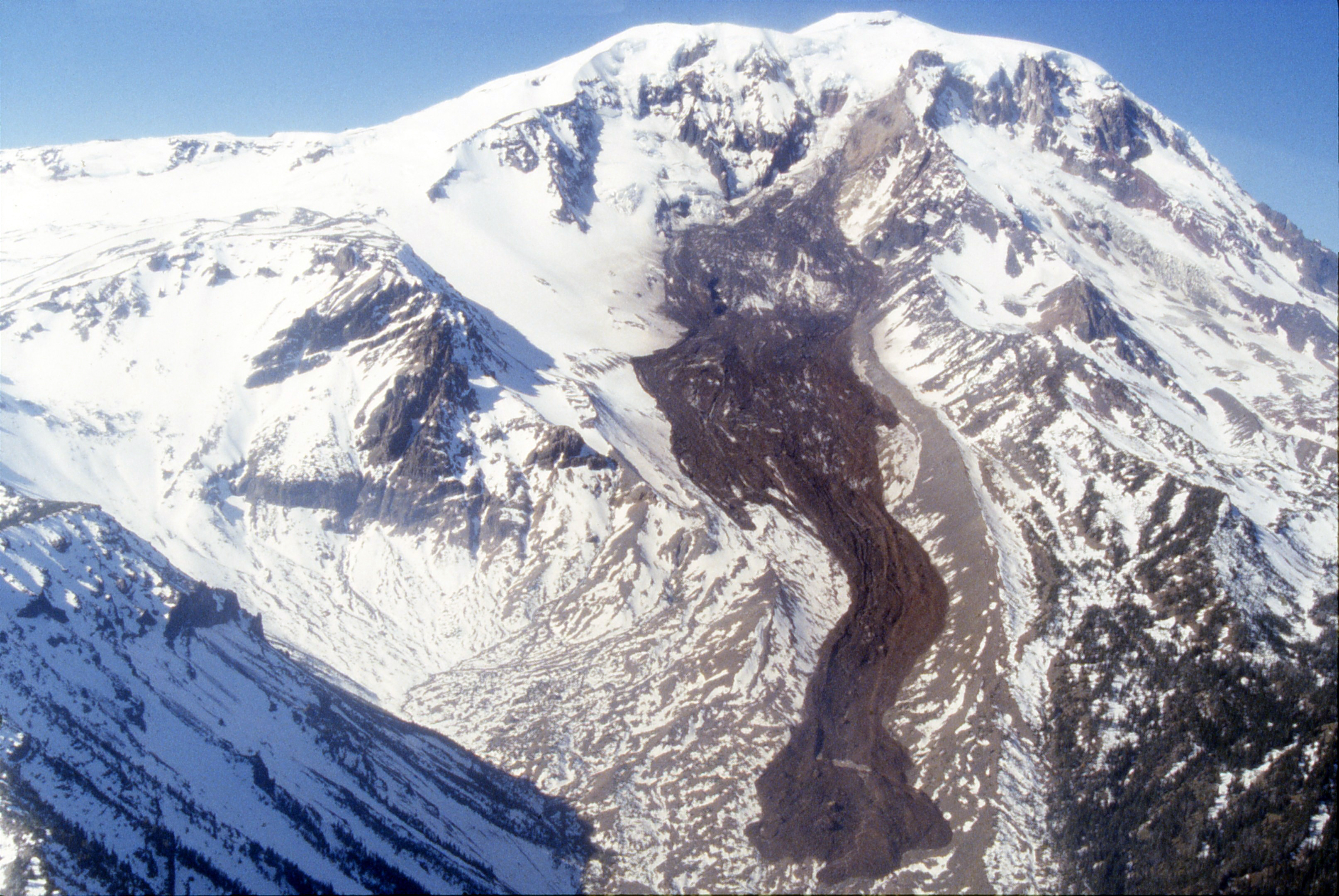 Picture of the rock and ice debris avalanche that occurred on October 20, 1997 on the east side of Mount Adams.